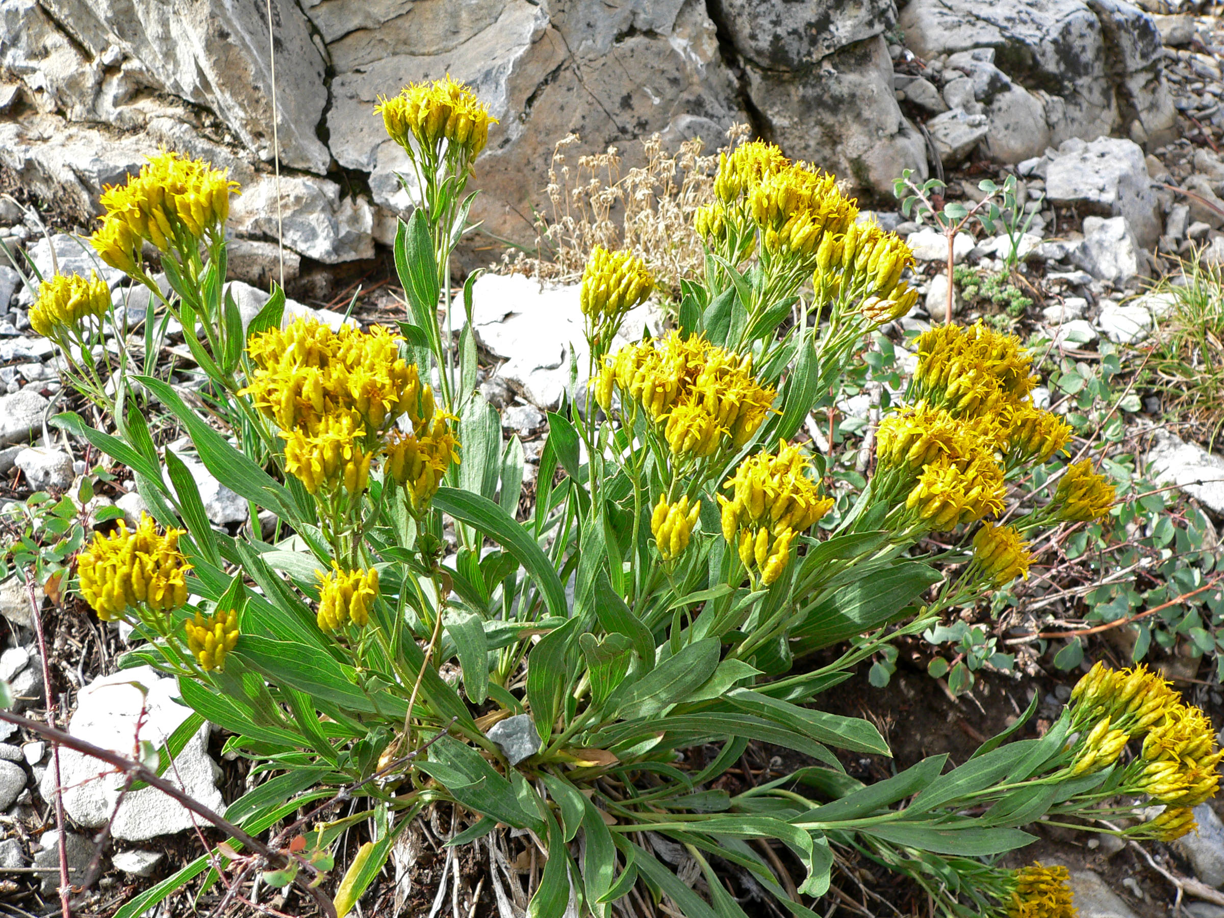 Petradoria pumila ssp. pumila in Lee Canyon, Spring Mountains, southern Nevada